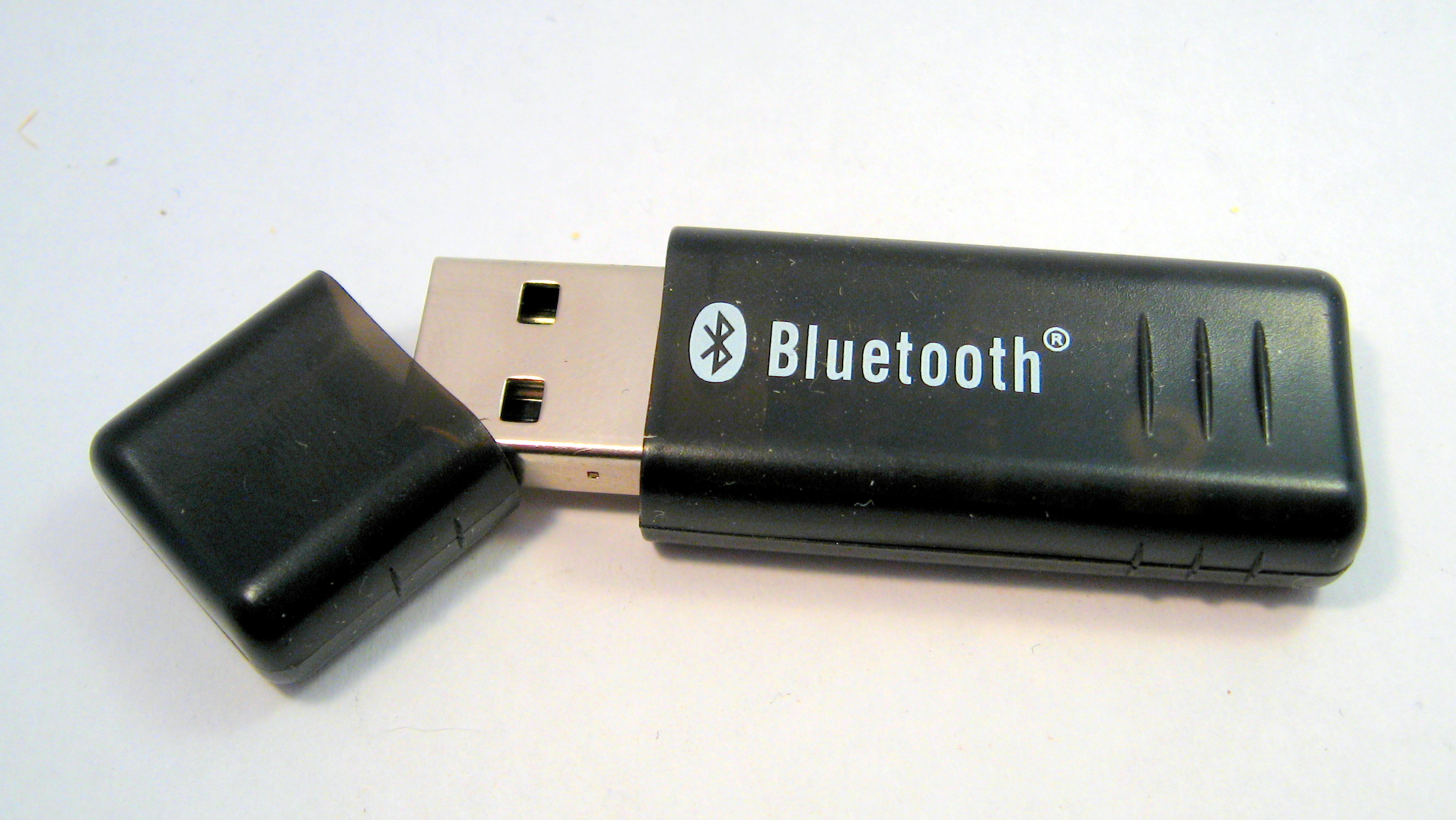 a bluetooth dongle